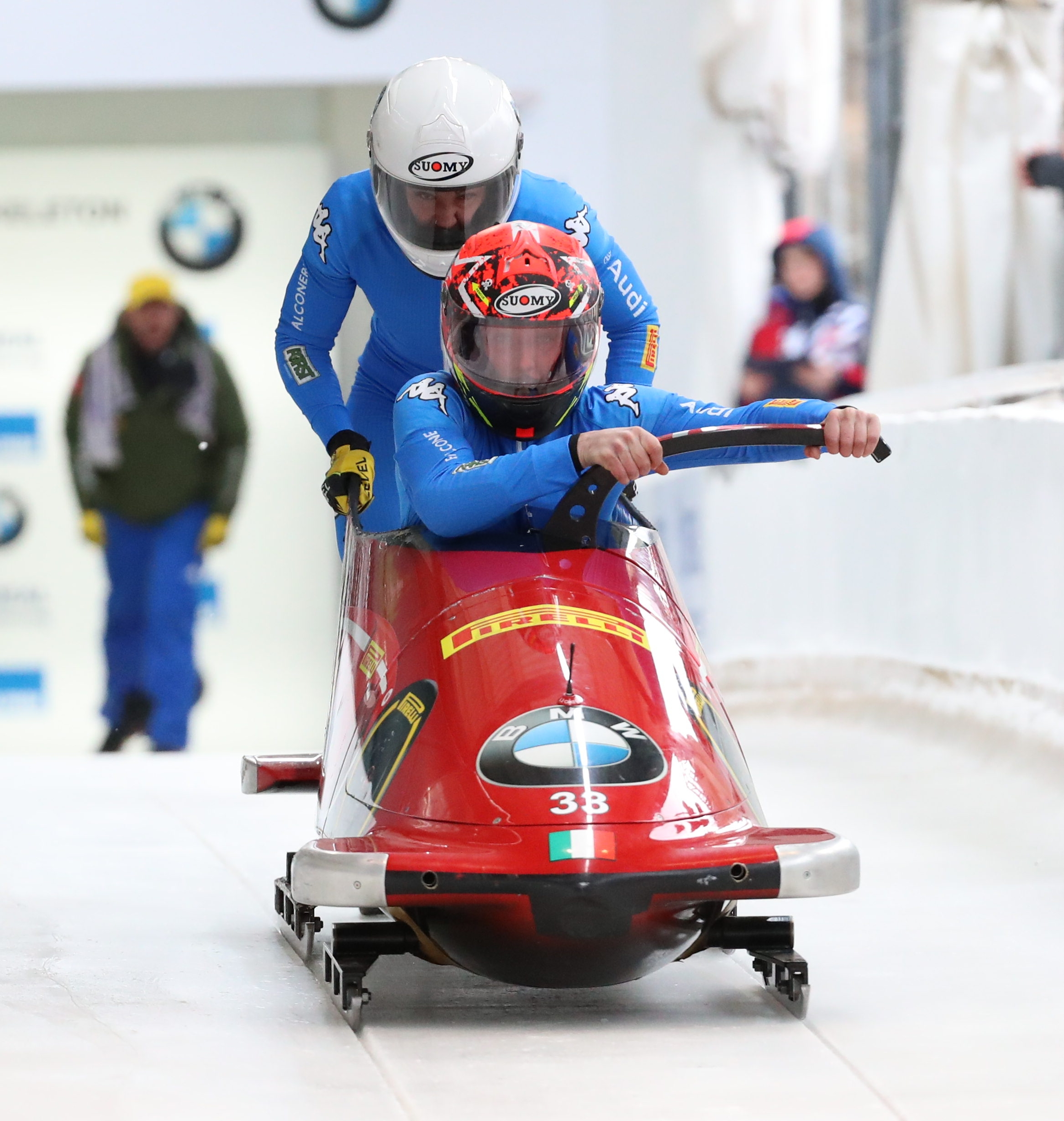 1st run at the 2-woman bobsleigh at the Bobsleigh and Skeleton World Championships 2020 in Altenberg